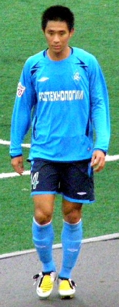 Oh Beom-seok in action for FC Krylya Sovetov Samara